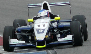 Valtteri Bottas during a 2008 FR 2.0 NEC race.